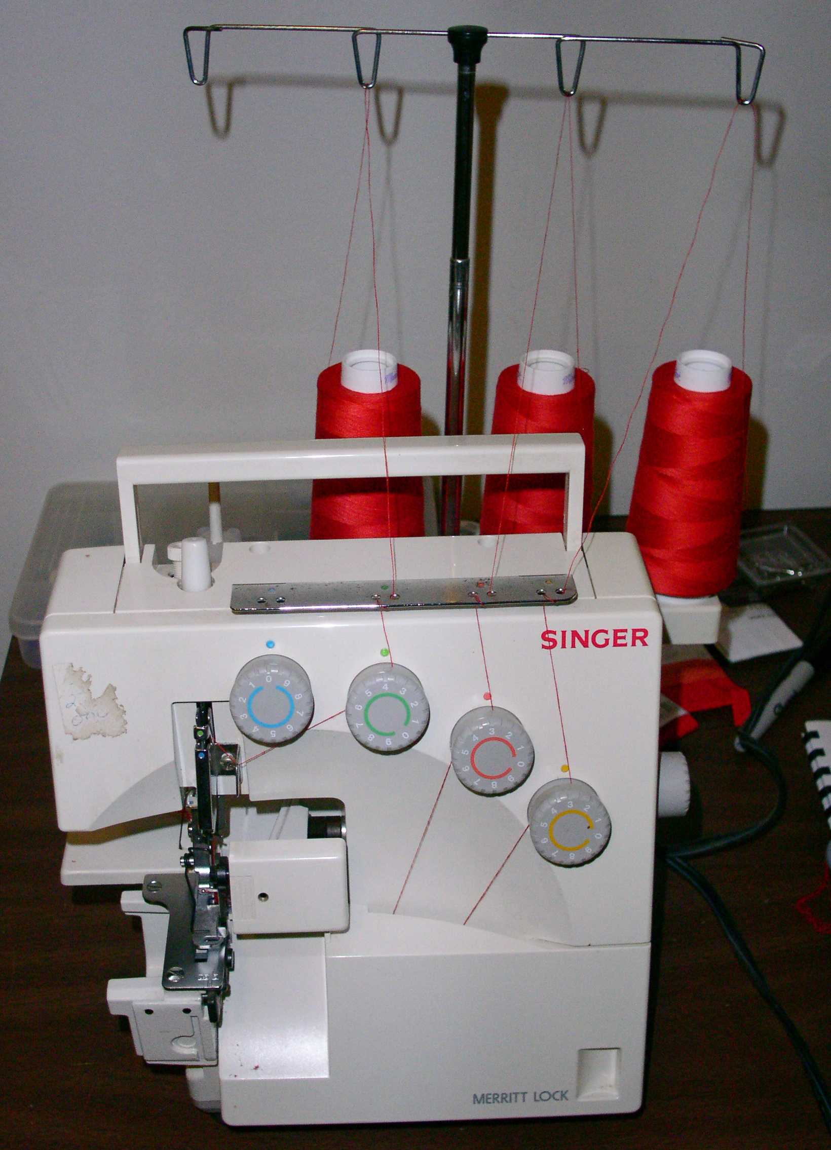 Singer 14U344B overlock sewing machine set for 3 thread overlock stitch. Also known as a serger.